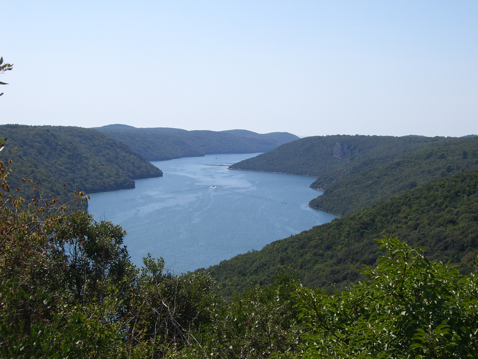 Lim canal.